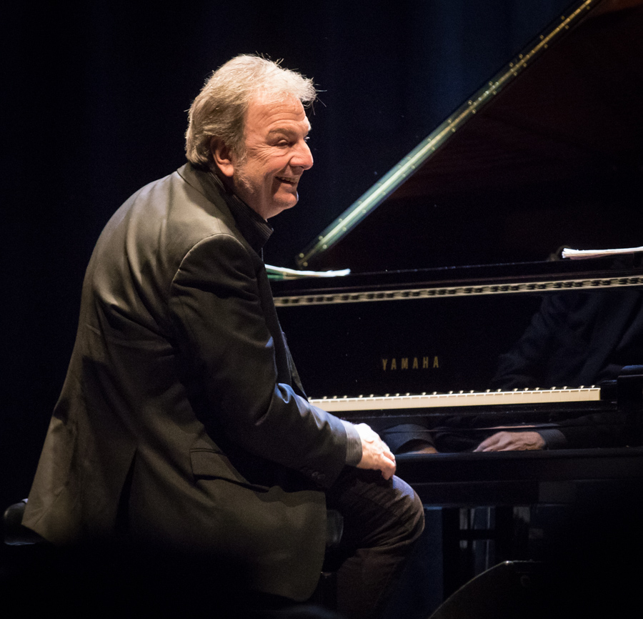 Pablo Ziegler at the stage of Cosmopolite. The concert took place on 11. March 2017 in Oslo. Lineup:Pablo Ziegler (piano)Quique Sinesi (guitar)Walter Castro (bandoneon)